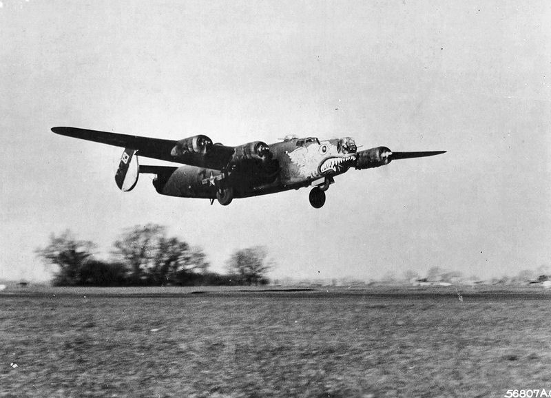 A B-24 Liberator from the 715th Bomb Squadron, 448th Bomb Group, 8th Air Force taking off for a mission. "Rugged But Right" Ford-built B-24H-20-FO Liberator s/n 42-94953 715th BS, 448th BG, 8th AF